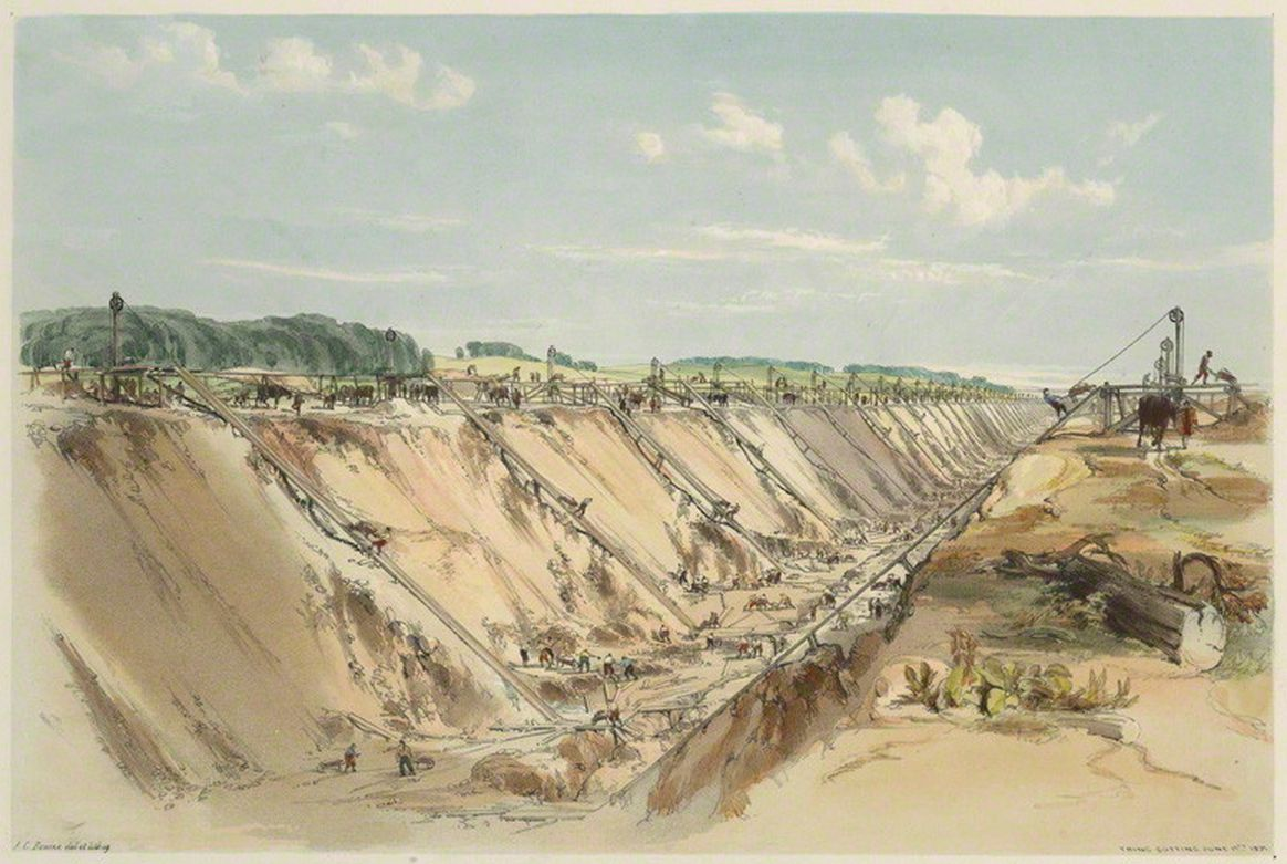 Tring Cutting by John Cooke Bourne, 1839